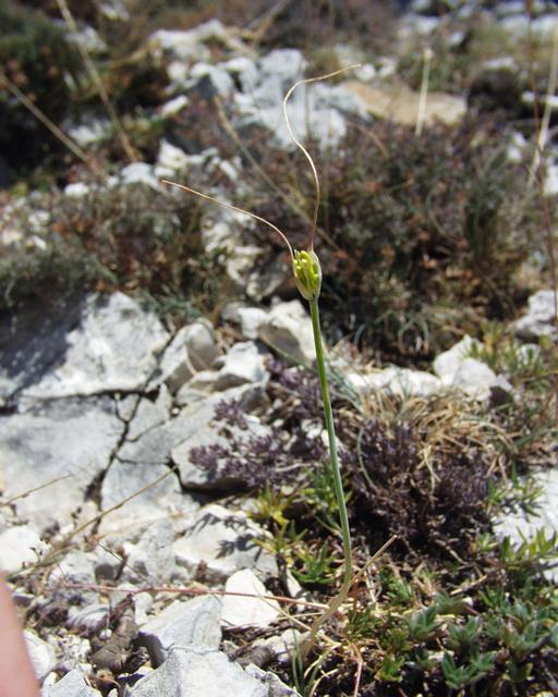 (en) Allium flavum, a photography originating of the internet site The accord of the autor, H. Brisse, is here. (fr) Allium flavum, une photographie issue du site internet L'accord de l'auteur, H. Brisse, se situe ici.